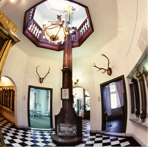 The Bert Bolle Barometer in the central hall of the former Barometer Museum in Maartensdijk, the Netherlands.